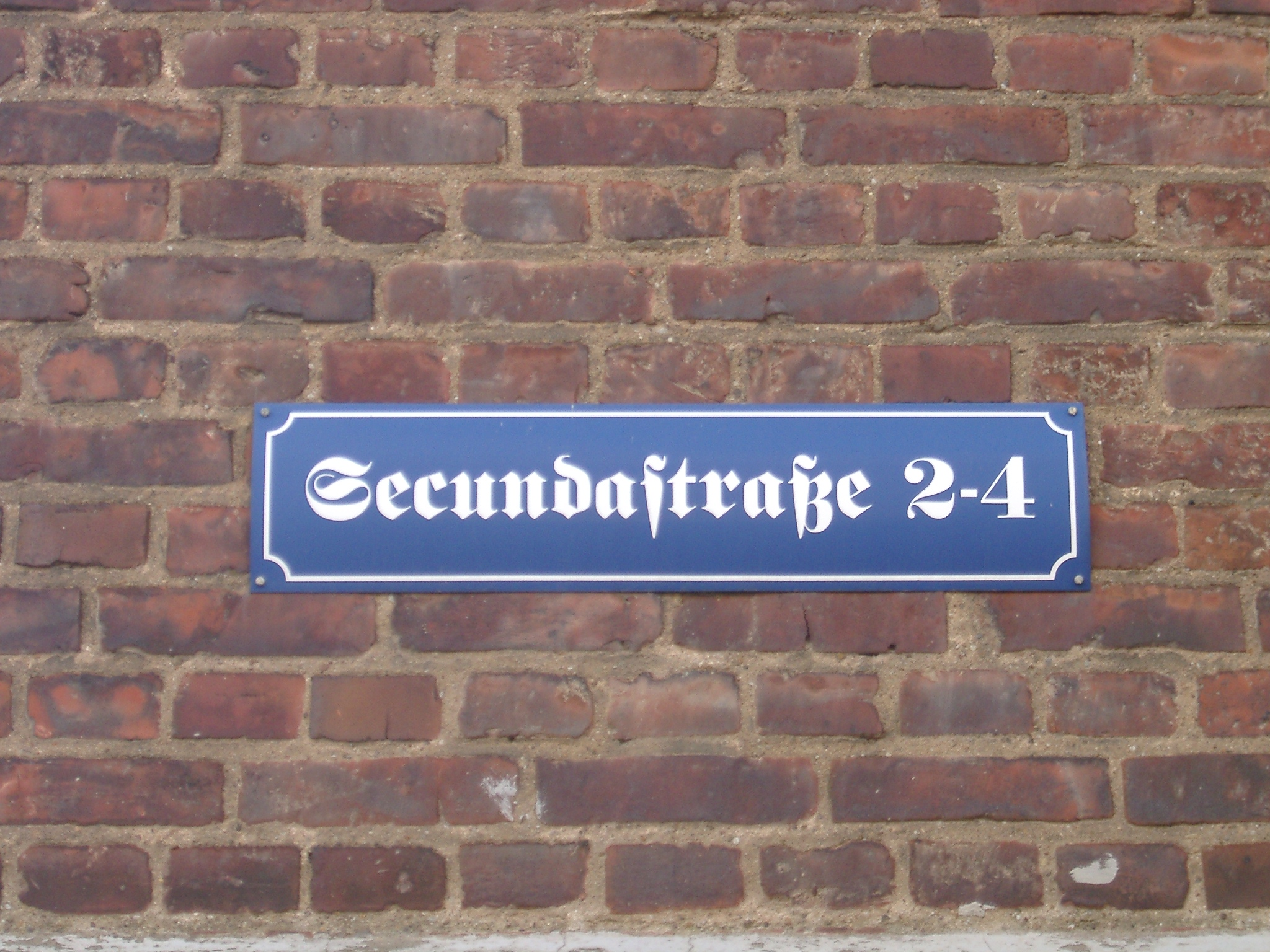 street sign "Secundastraße" in Fraktur letters with long s. Picture taken in Bornheim (Rheinland).